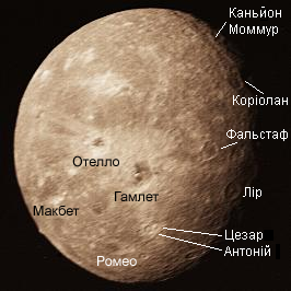 Oberon (a moon of Uranus). Voyager-2 image. All 10 surface features which have names (2016) are signed (according to maps by Tayfun Oner and list on IAU site)